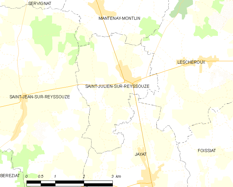 Map of French commune: Saint-Julien-sur-Reyssouze Map commune FR insee code 01367.png